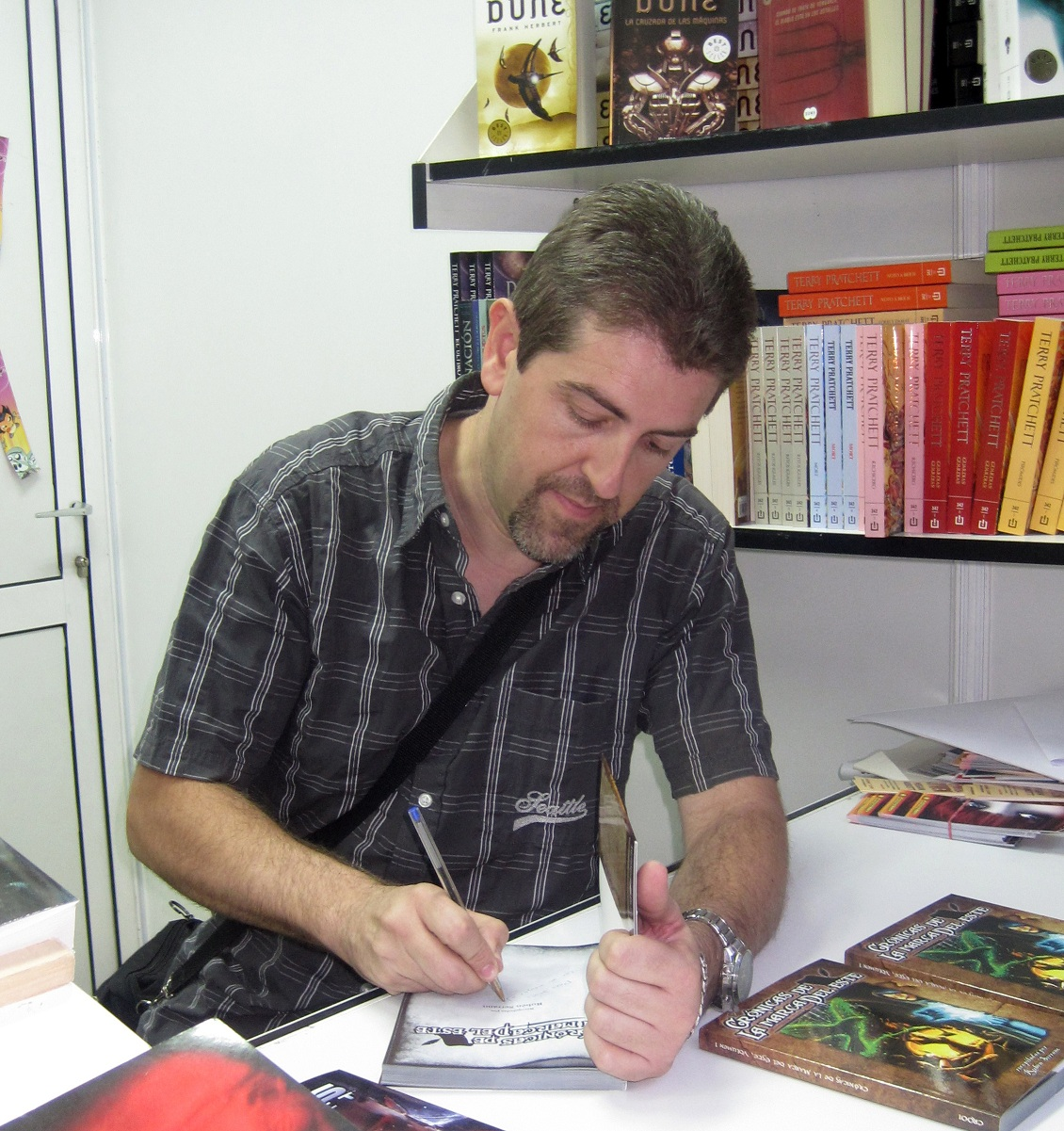 The spanish writer Ruben Serrano, in the Madrid Book Fair (2011).